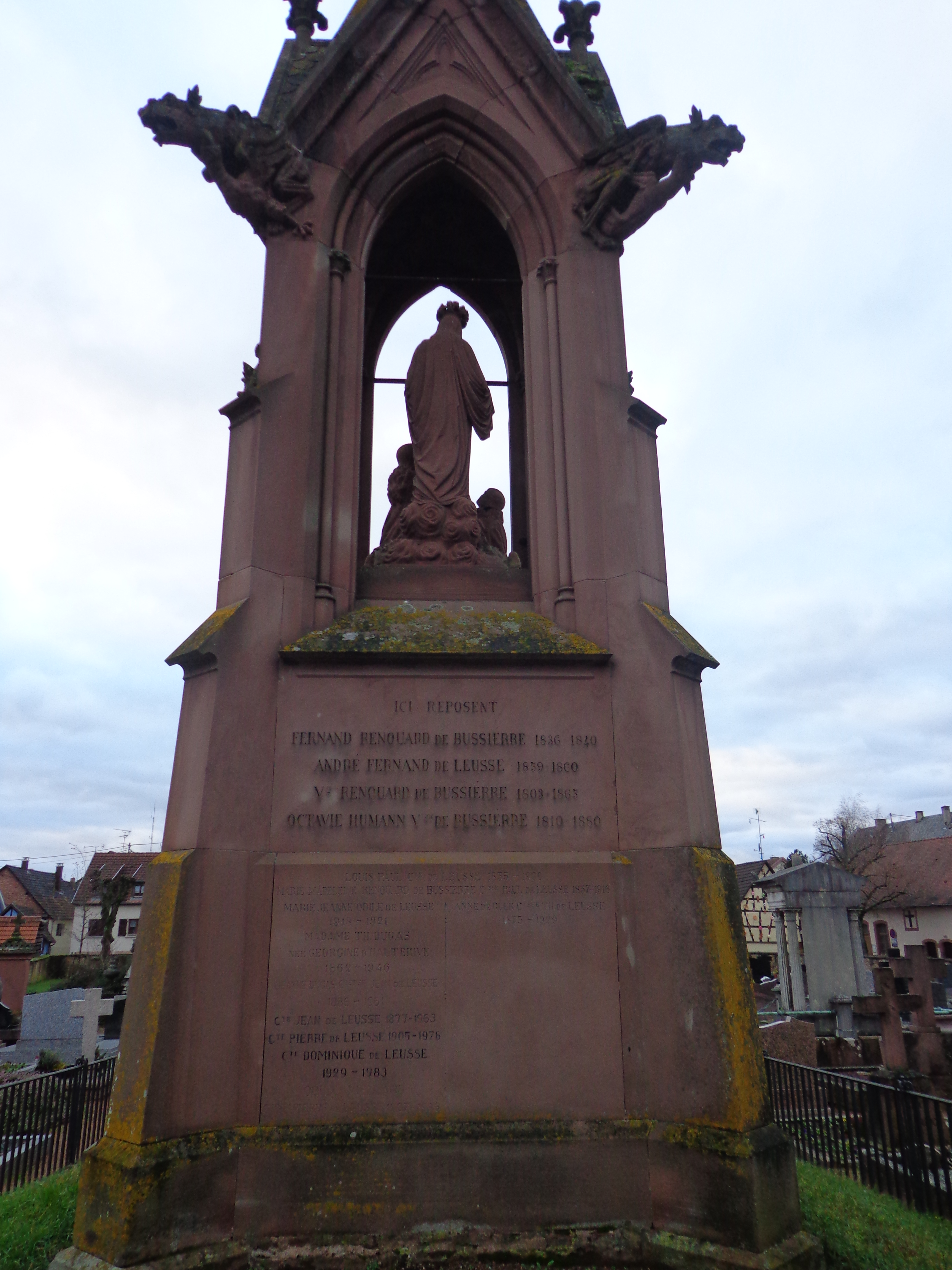 Provide all information that will help others understand what this file represents.